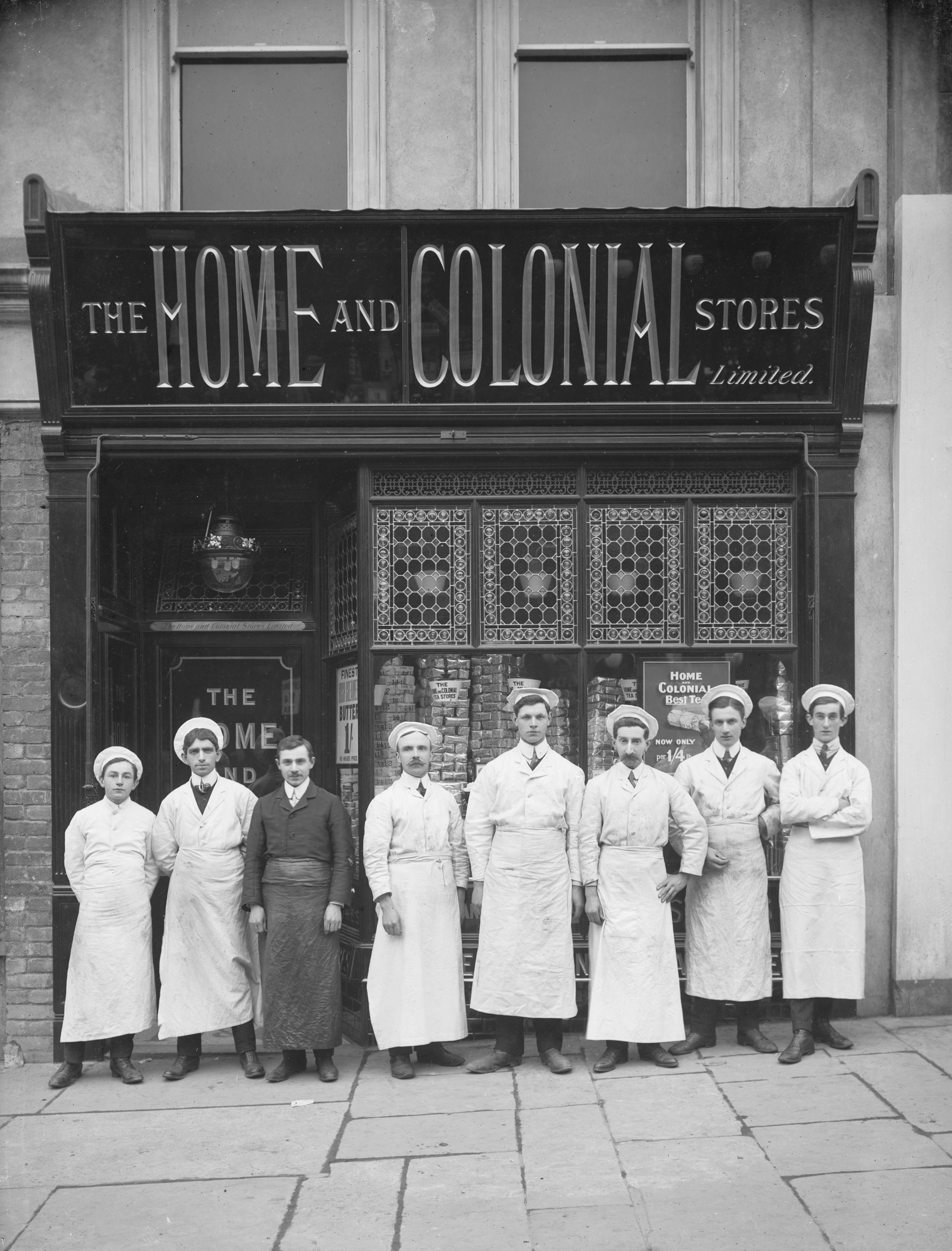 Group of shop assistants outside the Home & Colonial Stores on Broad Street, Waterford. Very packed window display jammed with packets of tea, and a lovely placard in the side window proudly proclaiming that they sell Finest Irish Creamery Butter 1/- (No Higher Price). Date: Tuesday, 10 May 1910 NLI Ref.: P_WP_2028